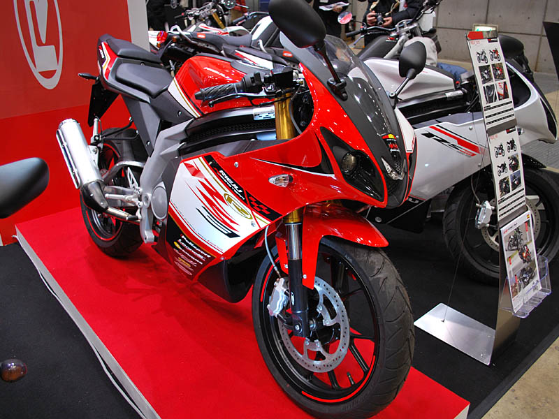 Rieju RS3 125